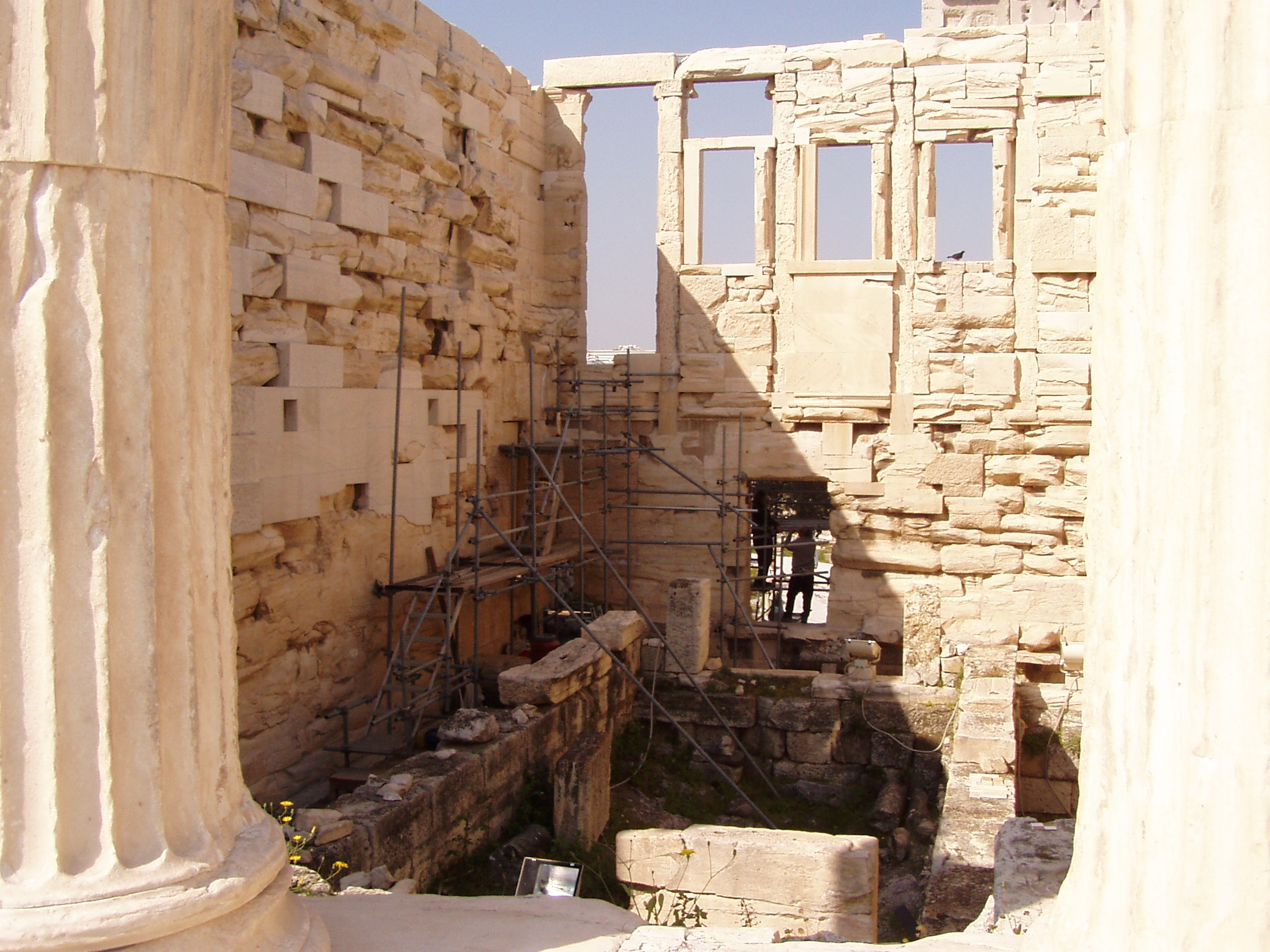 This is the Erechtheum at the Acropolis in Athens.